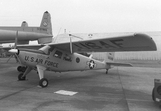 Helio U-10D "Courier" with tail of C-119 "Flying Boxcar" in background.